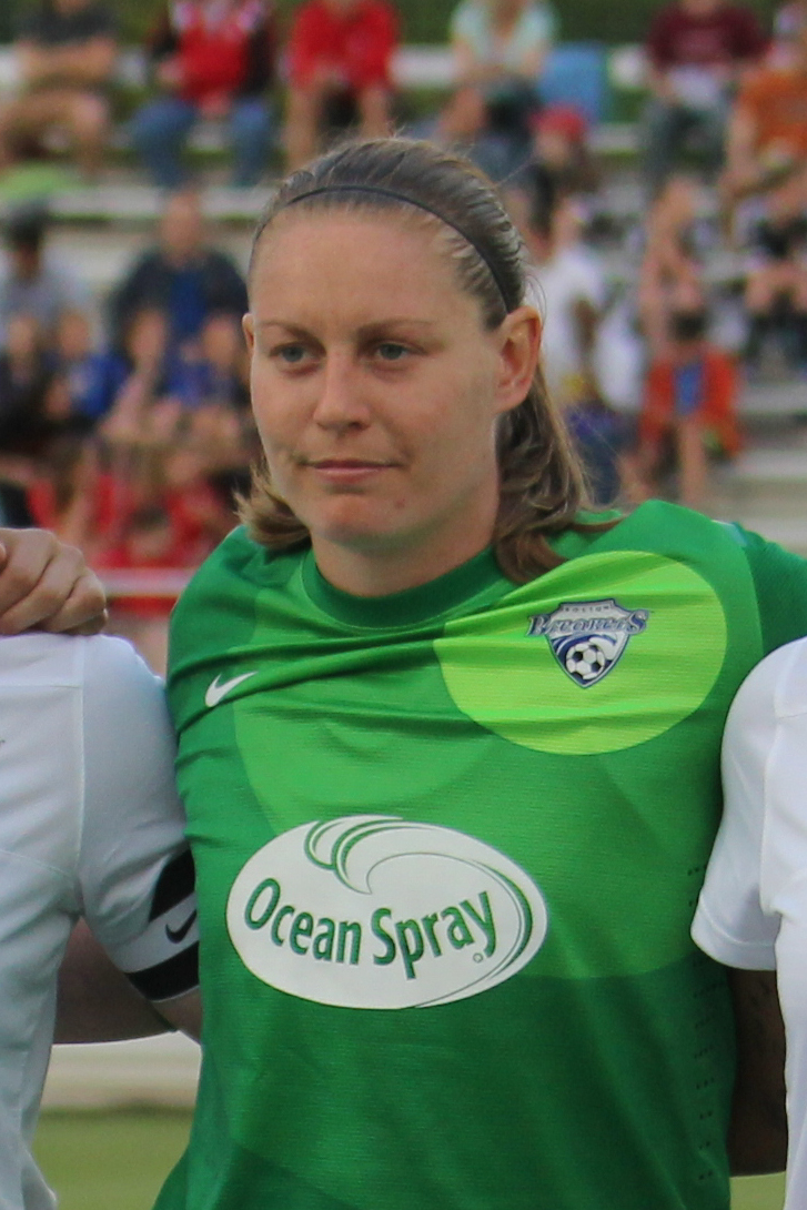 Ashley Phillips (Boston Breakers)